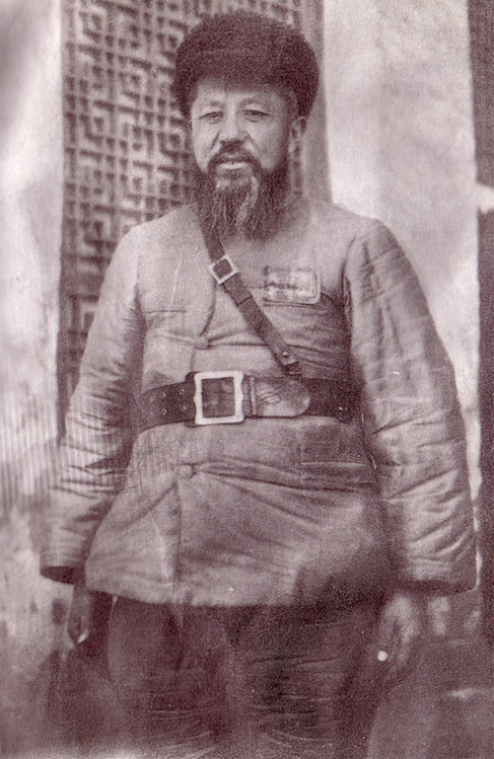 Uighur general Yulbars Khan